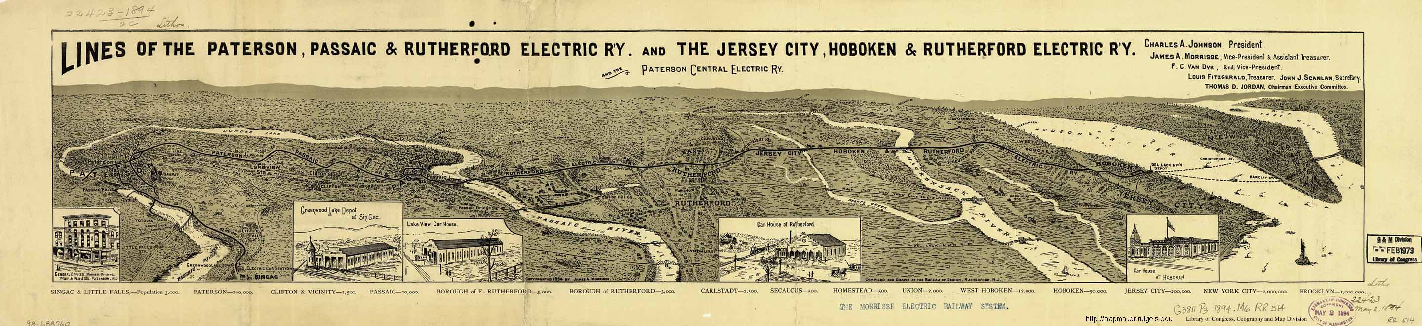 Lines of the Paterson, Passaic, & Rutherford Electric Railroad and the Jersey City, Hoboken & Rutherford Electric Railroad, and the Paterson Central Electric Railroad.